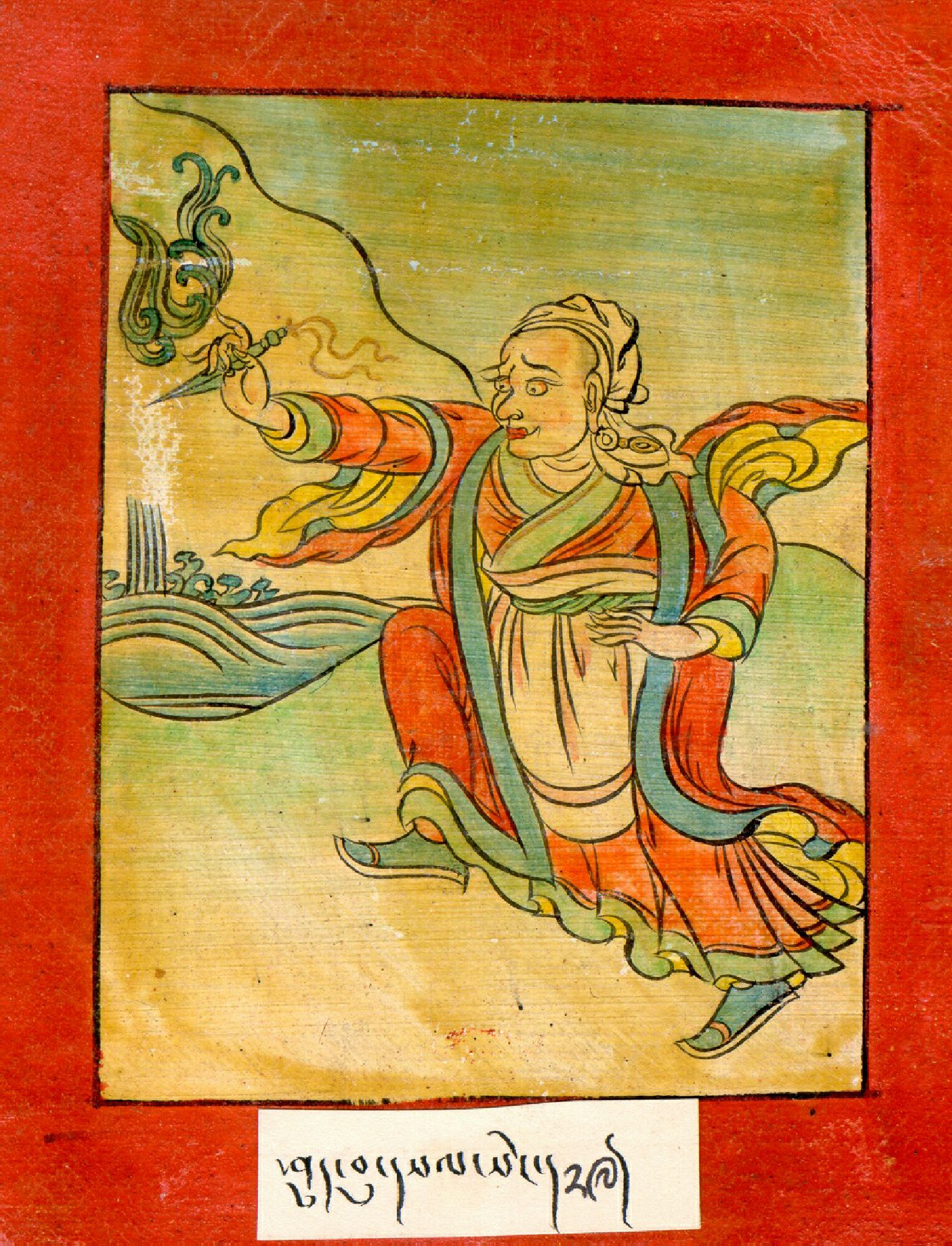 Palgyi_Sengge, 8th Century Tibetan translator